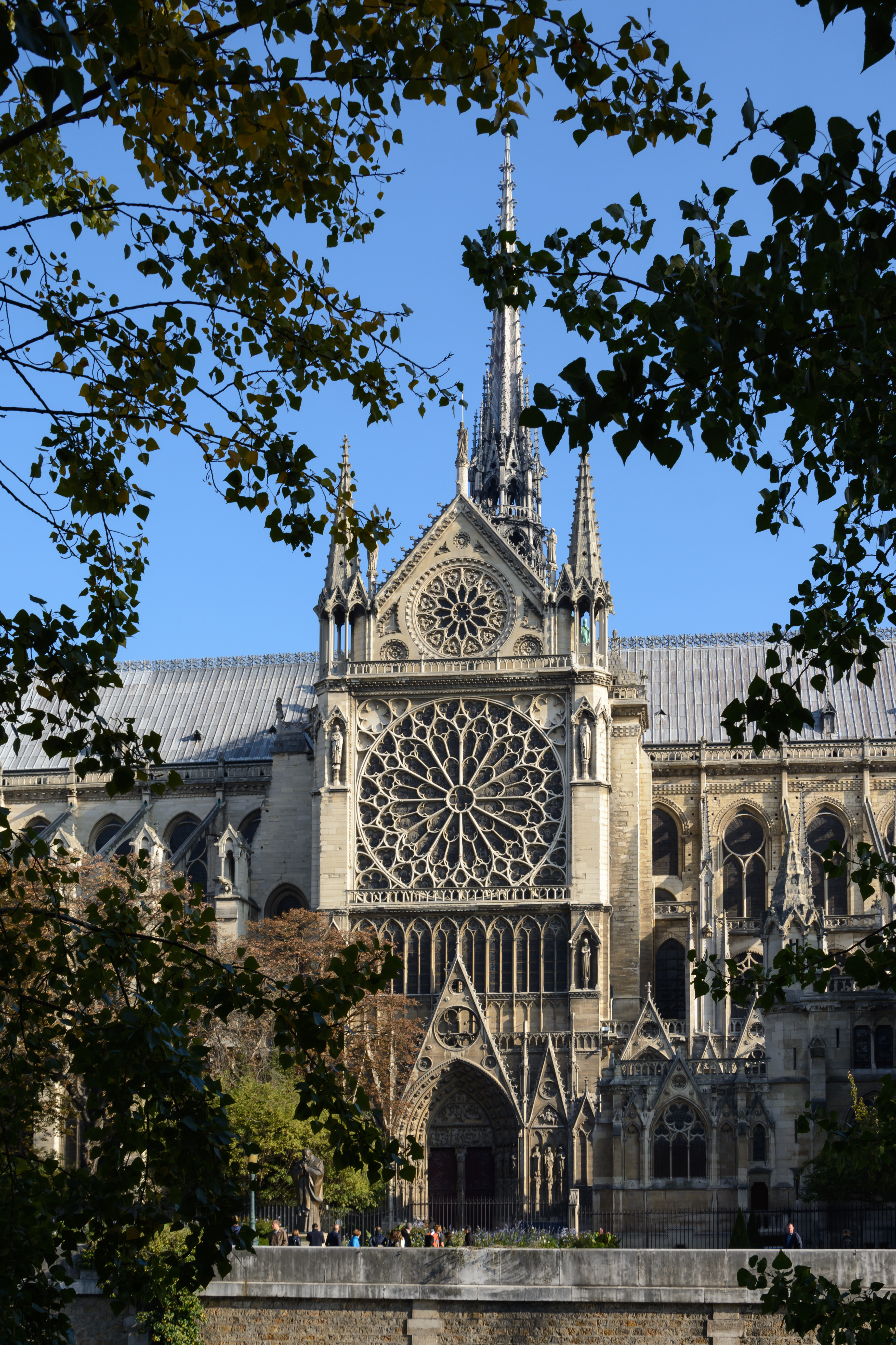 Façade and rose window of the south transept of cathedral Notre-Dame de Paris, France .